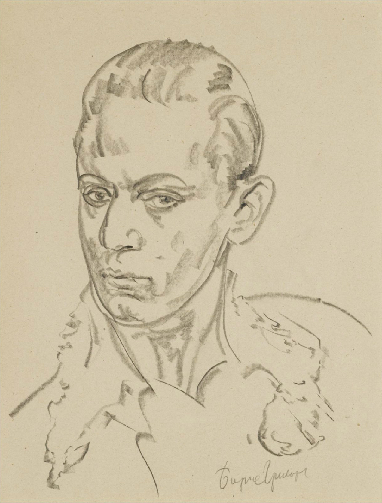 Serge Lifar 23.5 x 18.3 cm pencil on paper signed l.r. in cyrillic